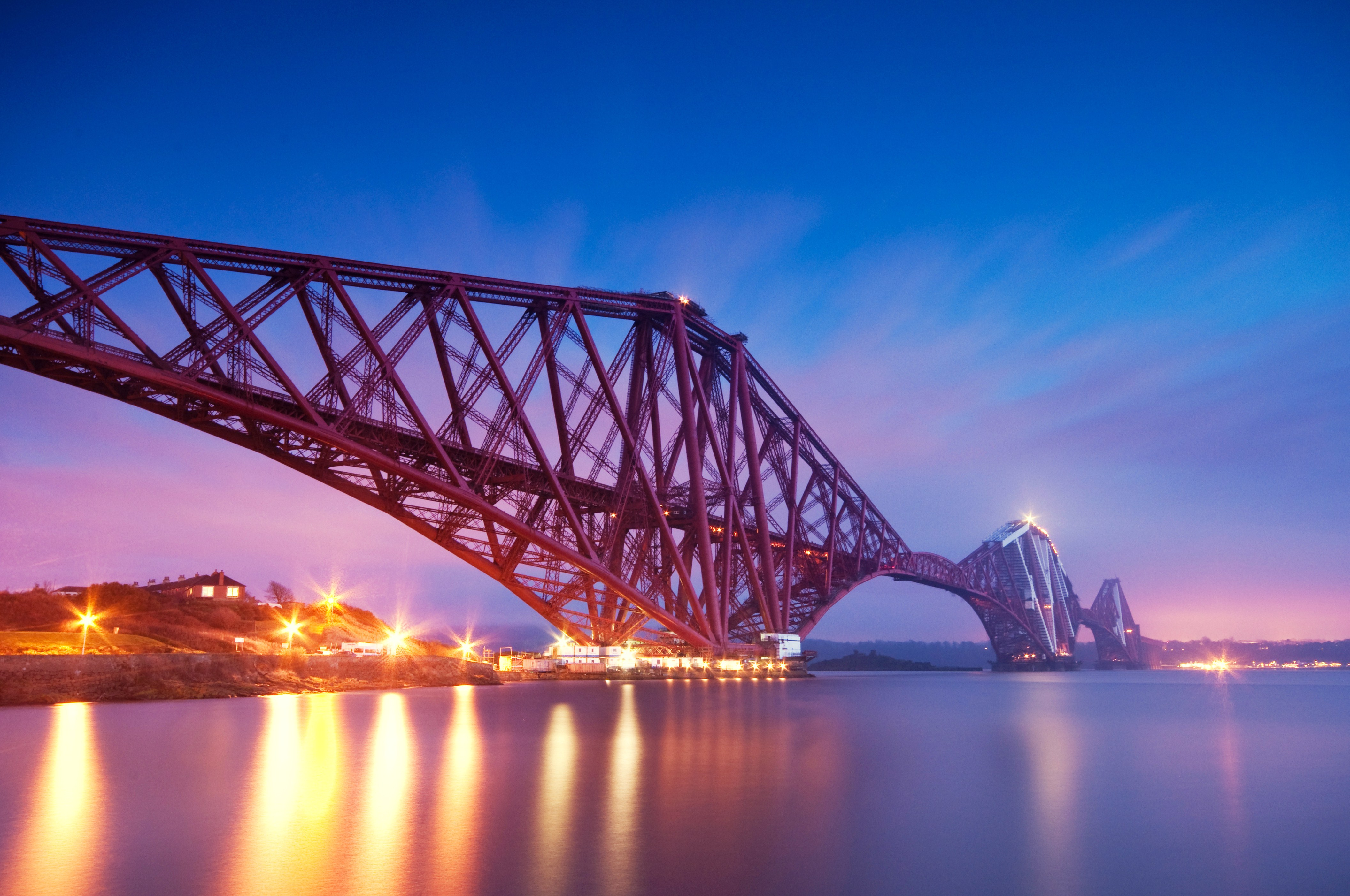 Long exposure shot of the Forth Rail Bridge taken from North Queensferry, Scotland. Taken shortly after sunset. Technical details: 6 ISO: 200 Filters: Lee Big Stopper and Lee ND Grad 0.9